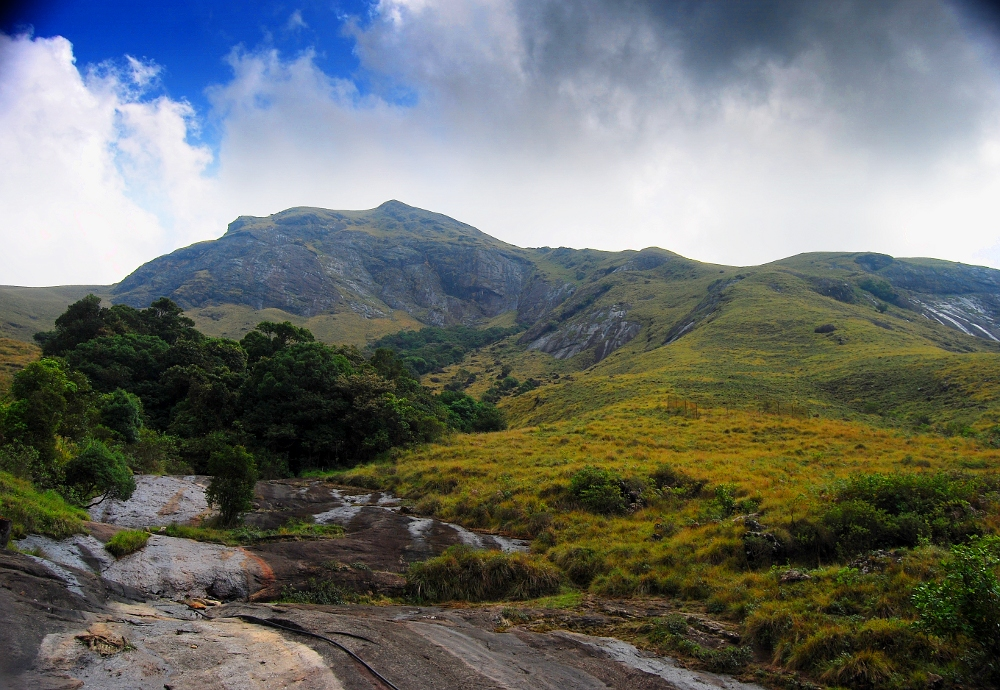 Eravikulam National Park is a 97 km2 national park located along the Western Ghats in the Idukki district of Kerala in India. Situated between 10º05'N and 10º20' north, and 77º0' and 77º10' east, (See:map.) it is the first national park in Kerala.